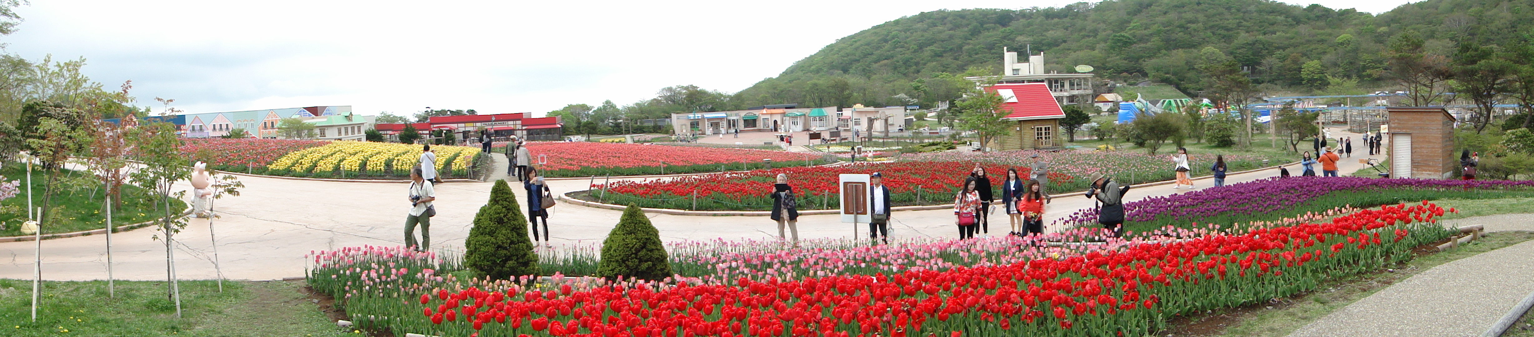 Heavenly Tulip Festival at Grinpa.